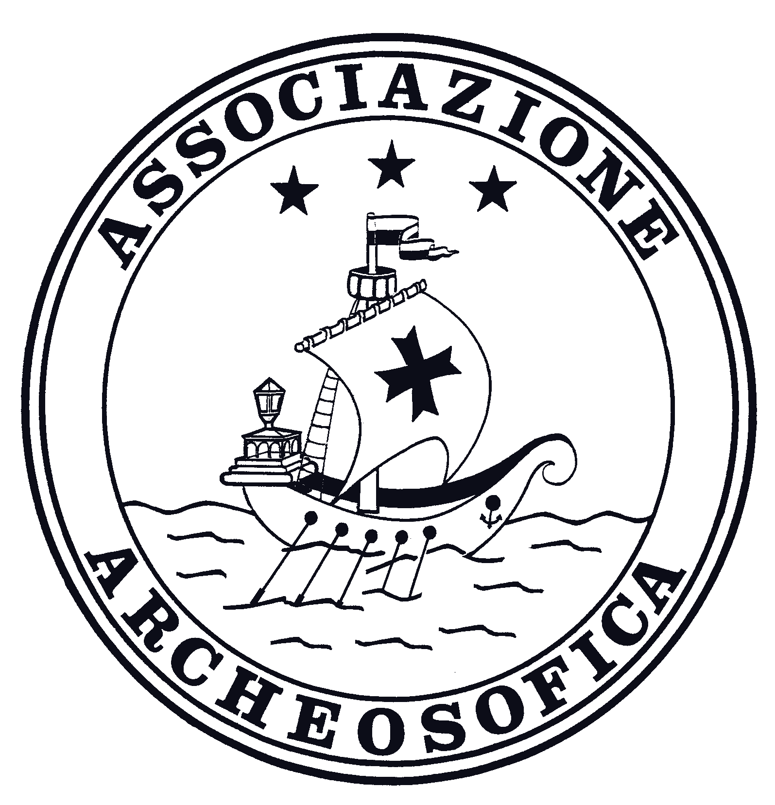 The emblem of the Archeosophical Association. The emblem of the Archeosophical Society.